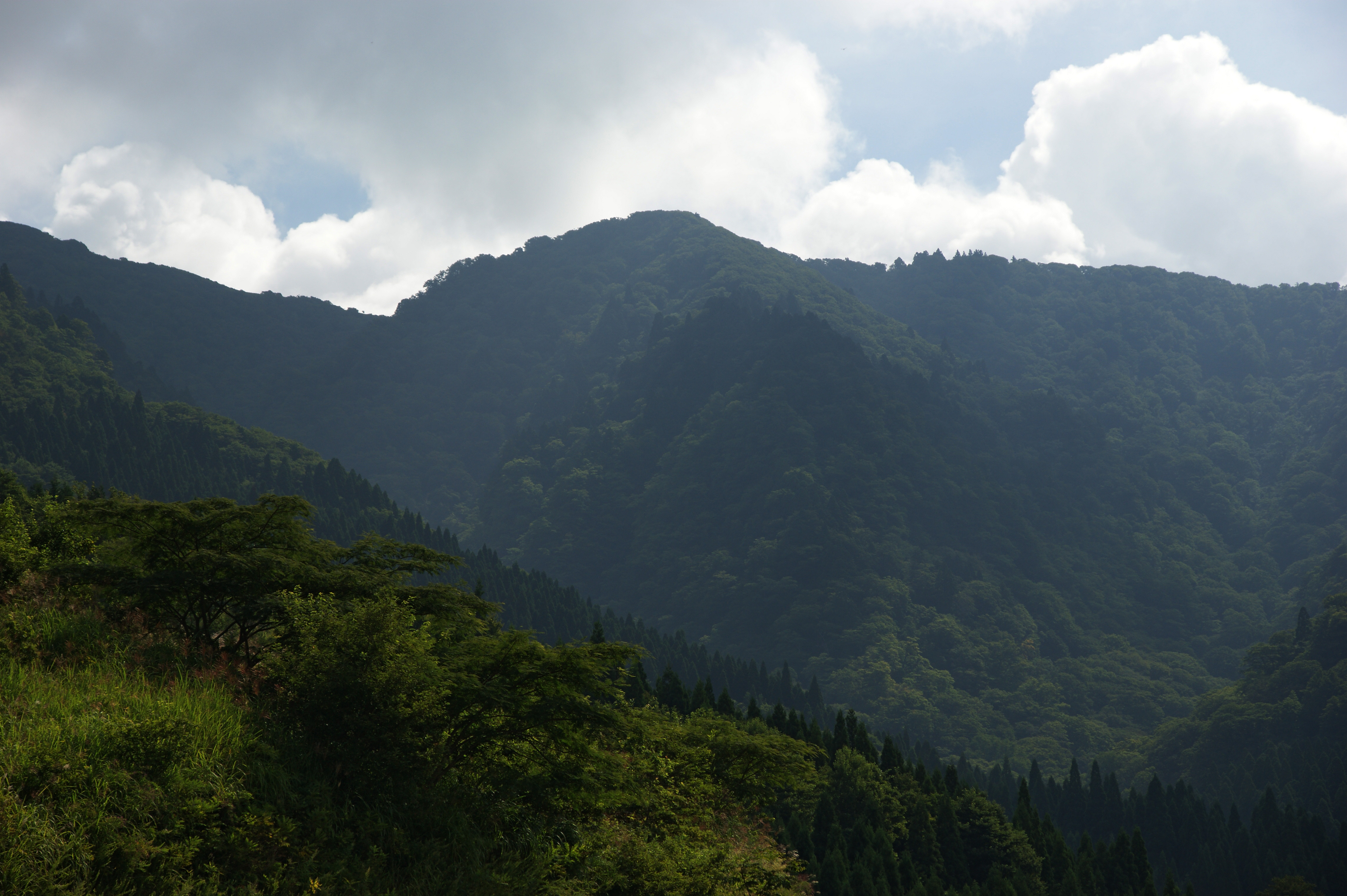 Mt. Hyonosen from Wakasa, Tottori prefecture, Japan